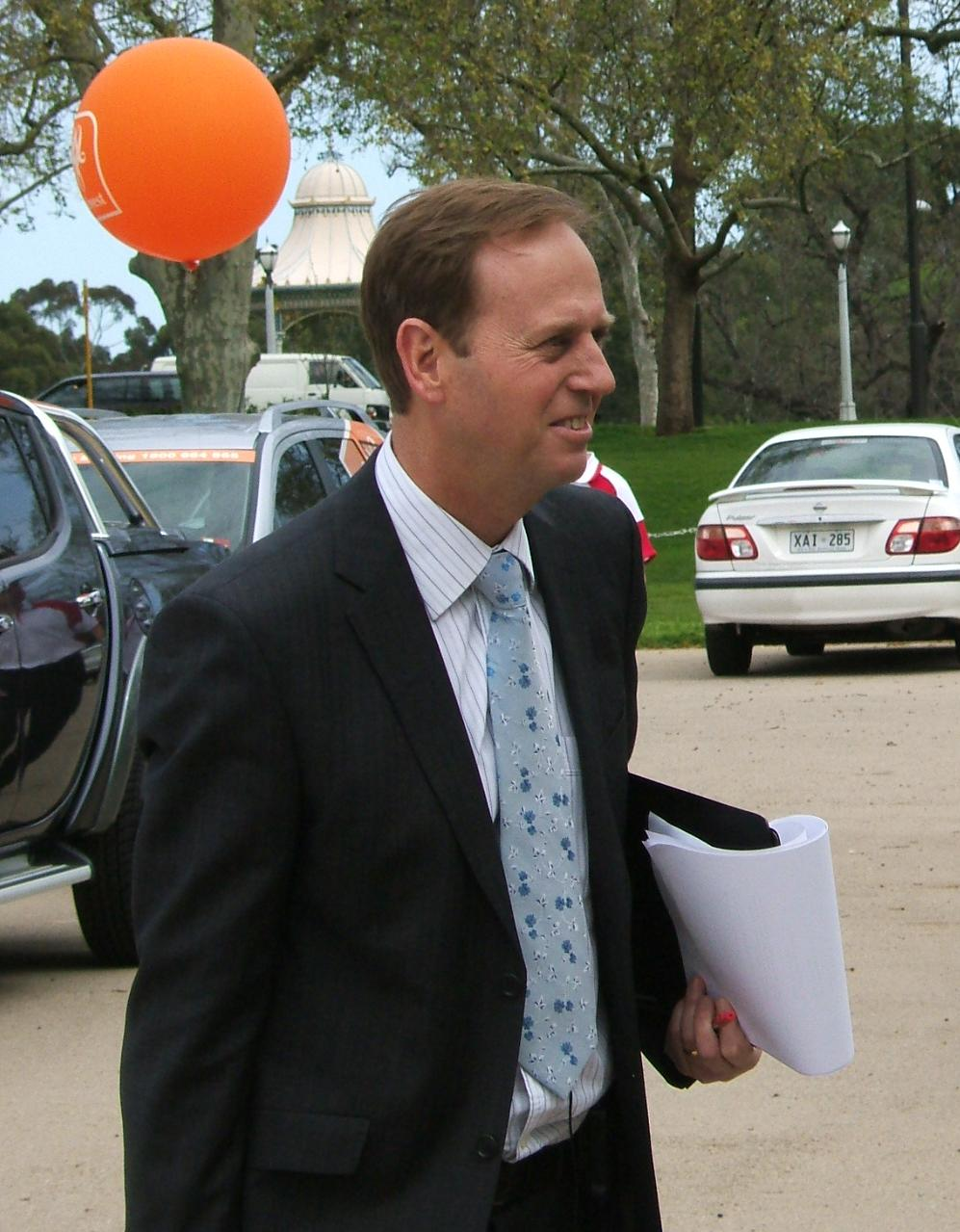 Mike Smithson (journalist) at the 2008 Olympic welcome home parade in Adelaide